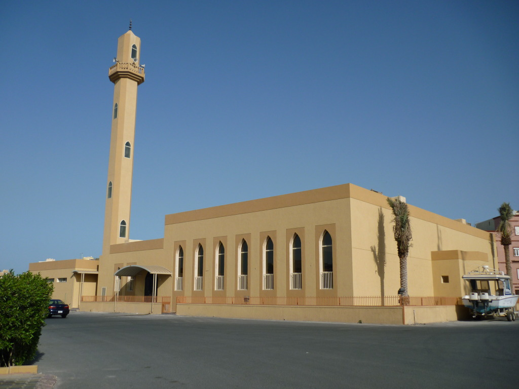 Uqba ibn Nafi mosque, ar Rumaithiya, Kuwait.